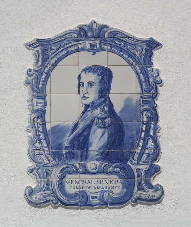 Representation of General Silveira, tile-existing "Cannon Yard" of the Military Museum in Lisbon.